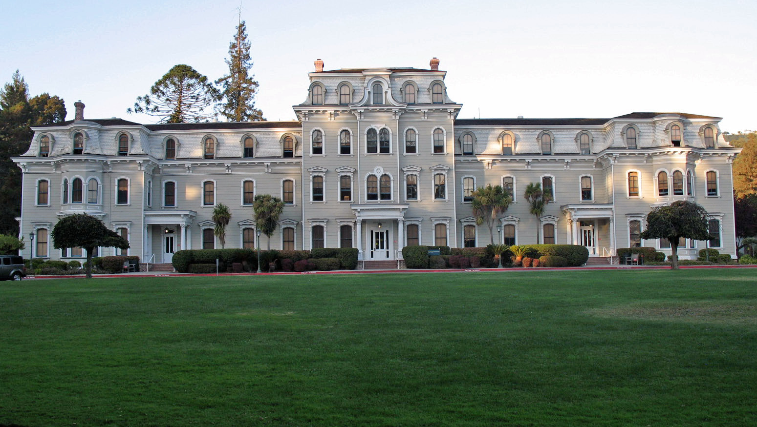 National Register of Historic Places listings in Alameda County, California. Mills Hall, Mills College campus, Oakland, California, USA. Photographed 2008-09-28 from the green to the southwest of the building.